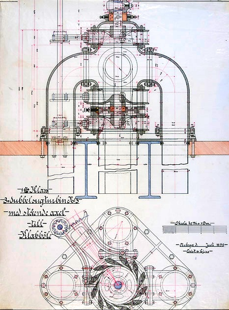 Turnine design used in Klabböle in 1898. by Ritning av Qvist & Gjers July 1898. Now in Klabböle kraftverk power museum